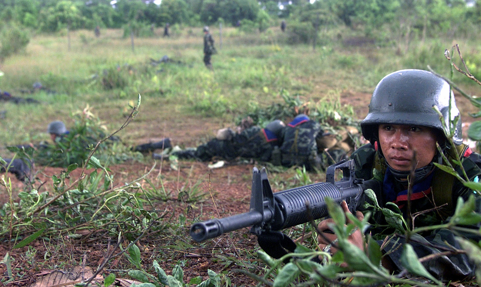 Royal Thai Army Infantry Soldier armed with a 5.56mm M16A2 assault rifle mans a defensive position during a combat tactics exercise, held at Thung Song, Thailand, during Exercise COBRA GOLD 2000.